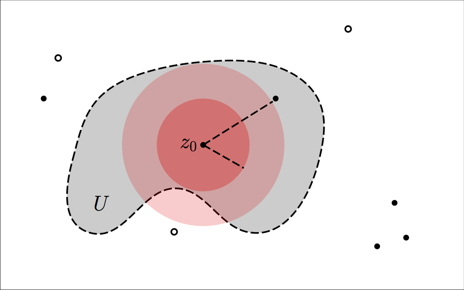 Used for proof of open mapping theorem.